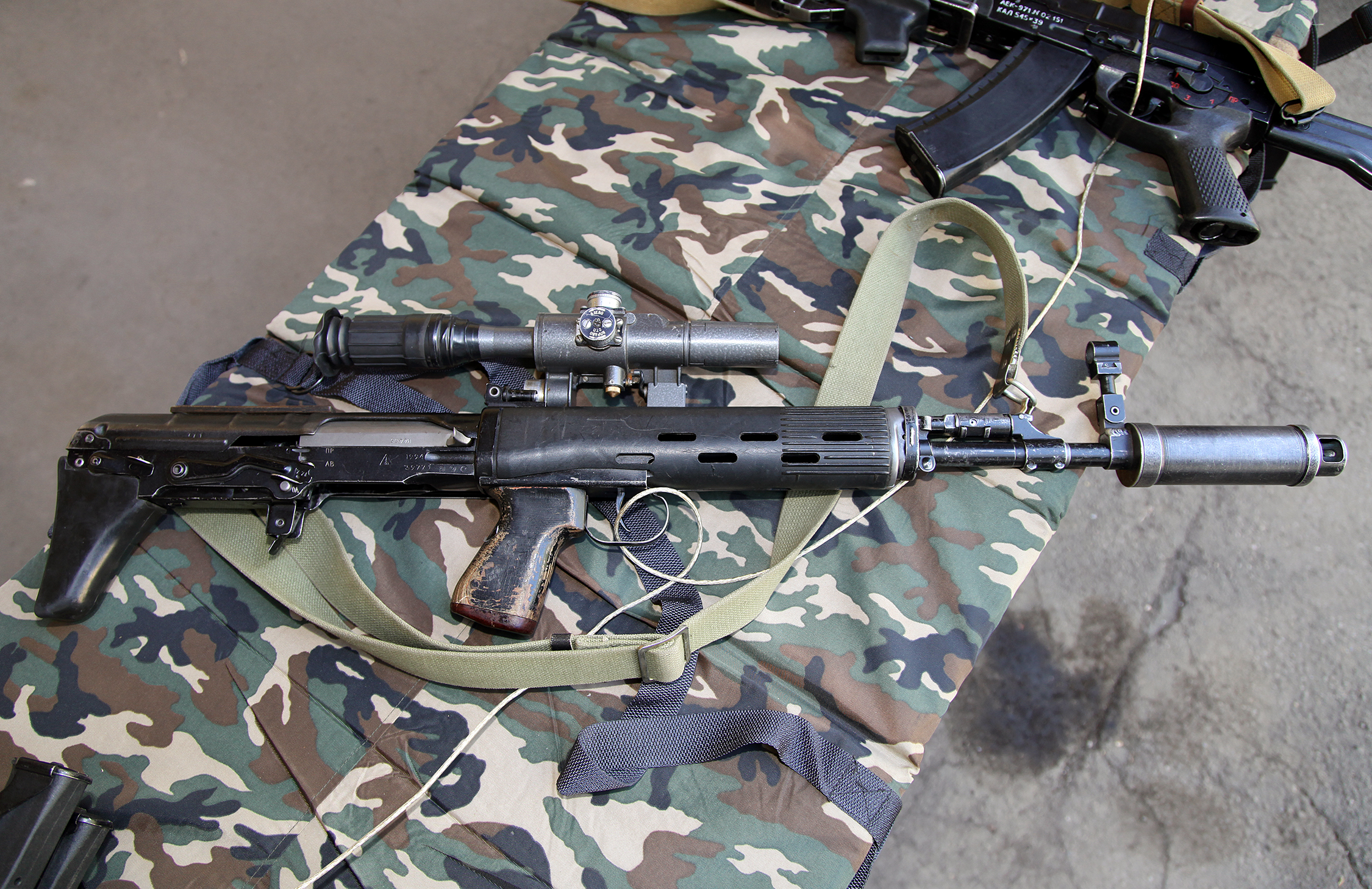 7.62x54 sniper rifle SVU